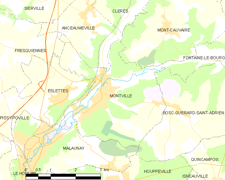 Map of French municipality Montville